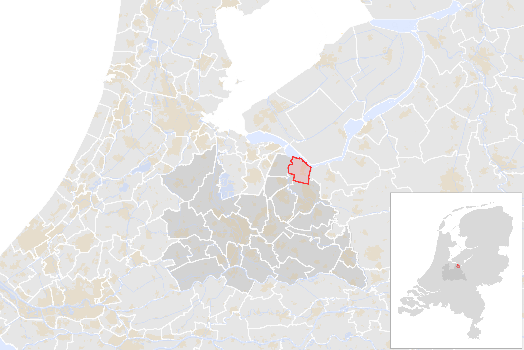 Locator map showing municipality boundary of one of the 390 Dutch municipalities (as of 2016)